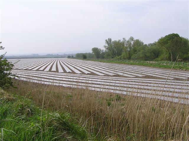 Broglasco Townland The bio-degradable sheets are a common feature for bringing on the crops.